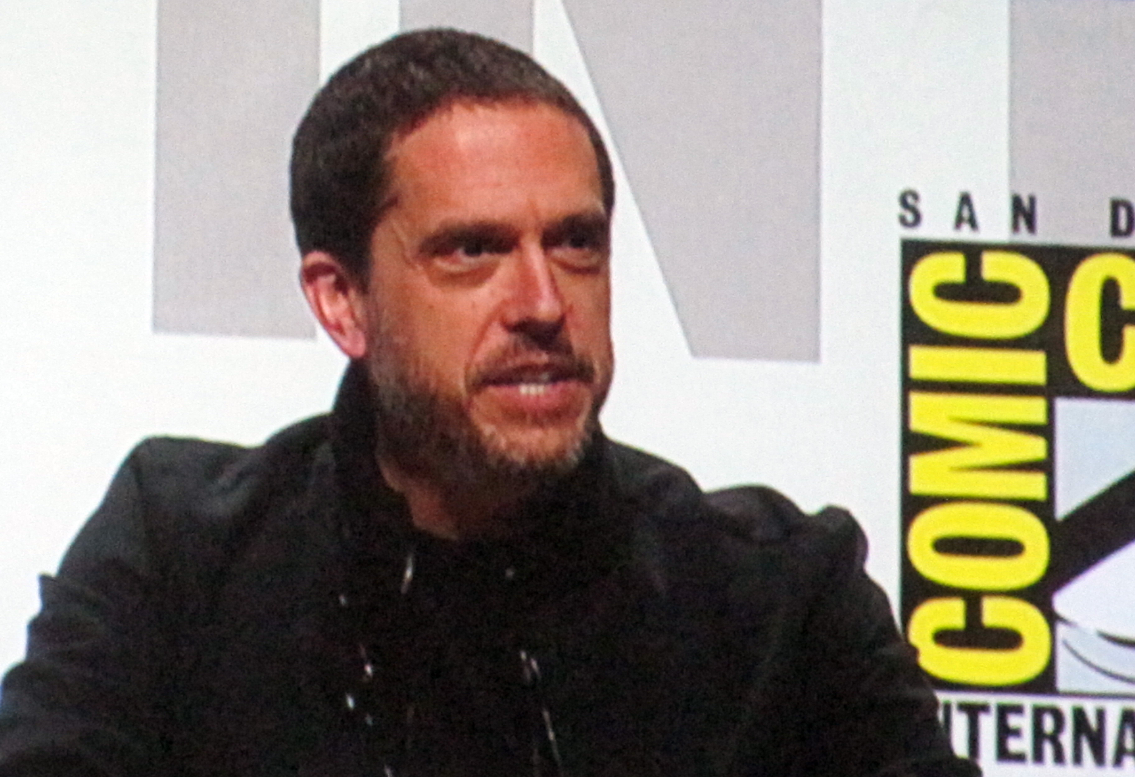 Director Lee Unkrich participating in the Toy Story 3 panel at WonderCon 2010.